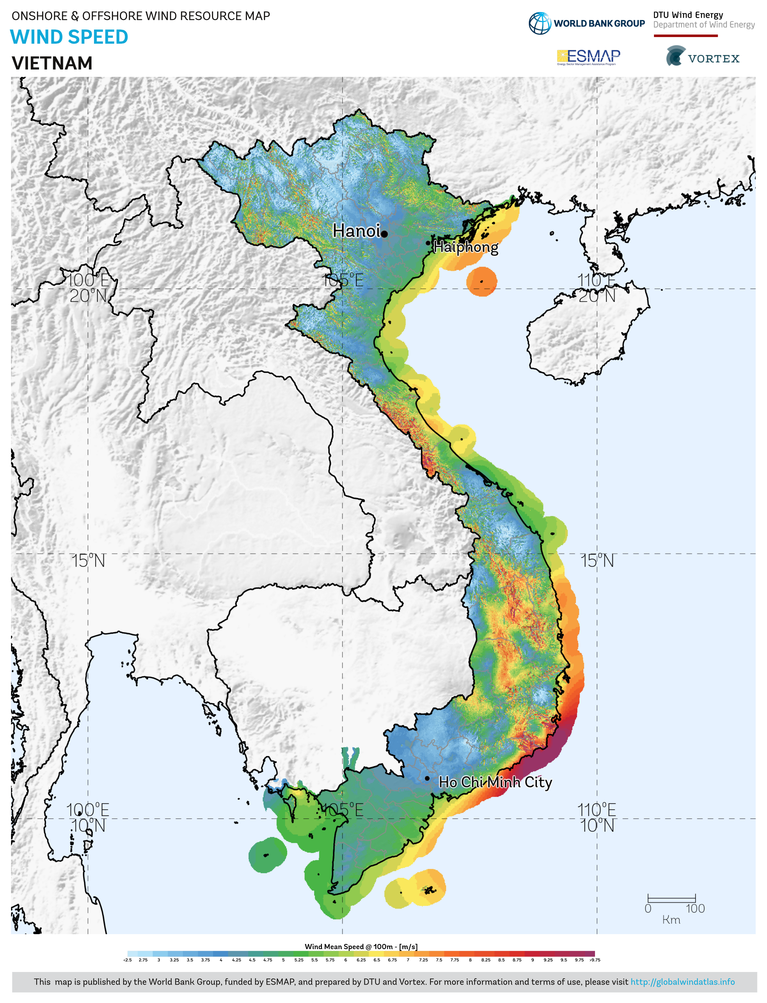 This map is taken from Global Wind Atlas, available at